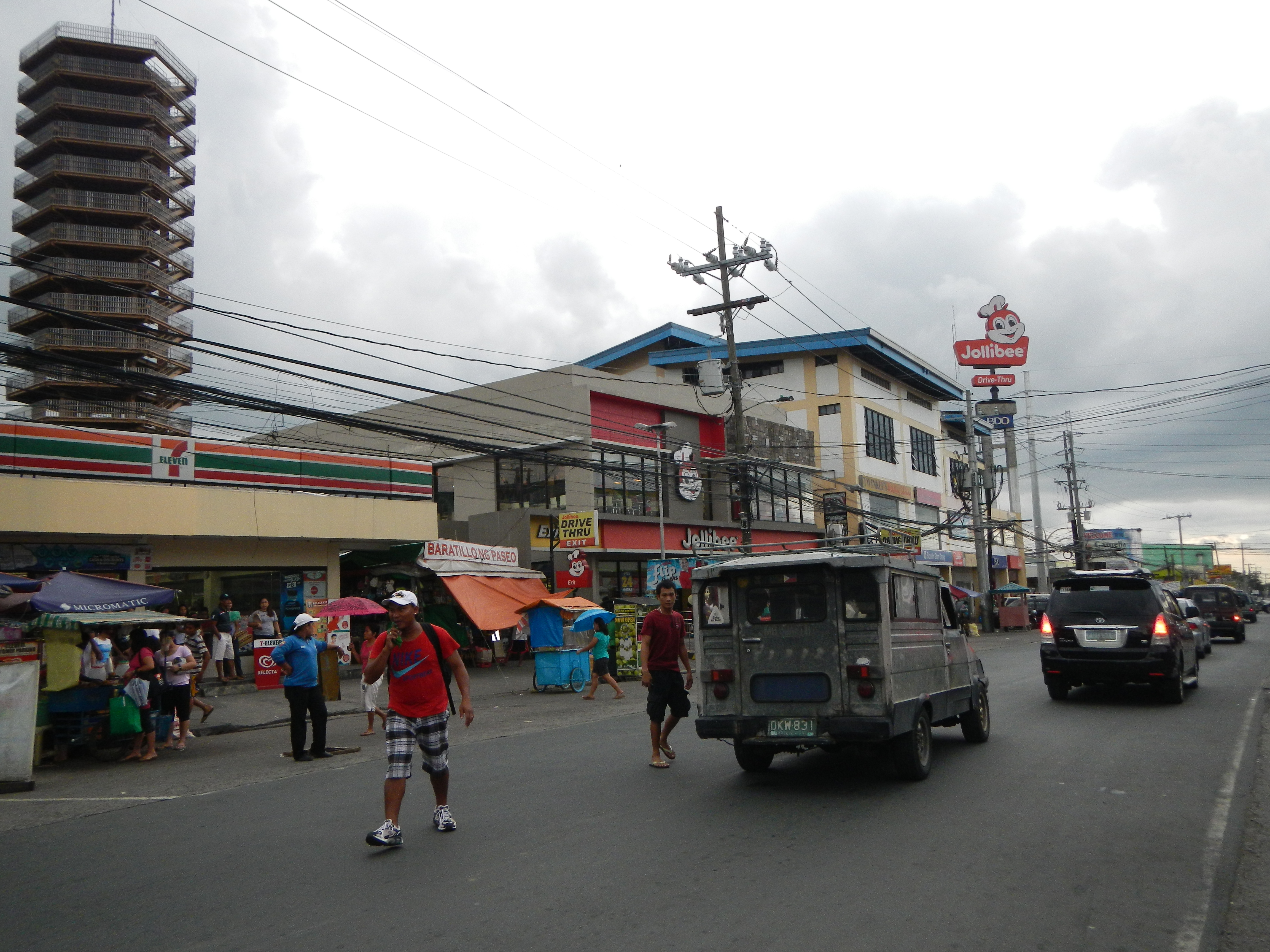 Centro, downtown, bus and jeep terminal, bus stop, Jollibee branch, and main offices and businesses along, around and near the Cavite Provincial Capitol Complex & Trece Martires City Hall